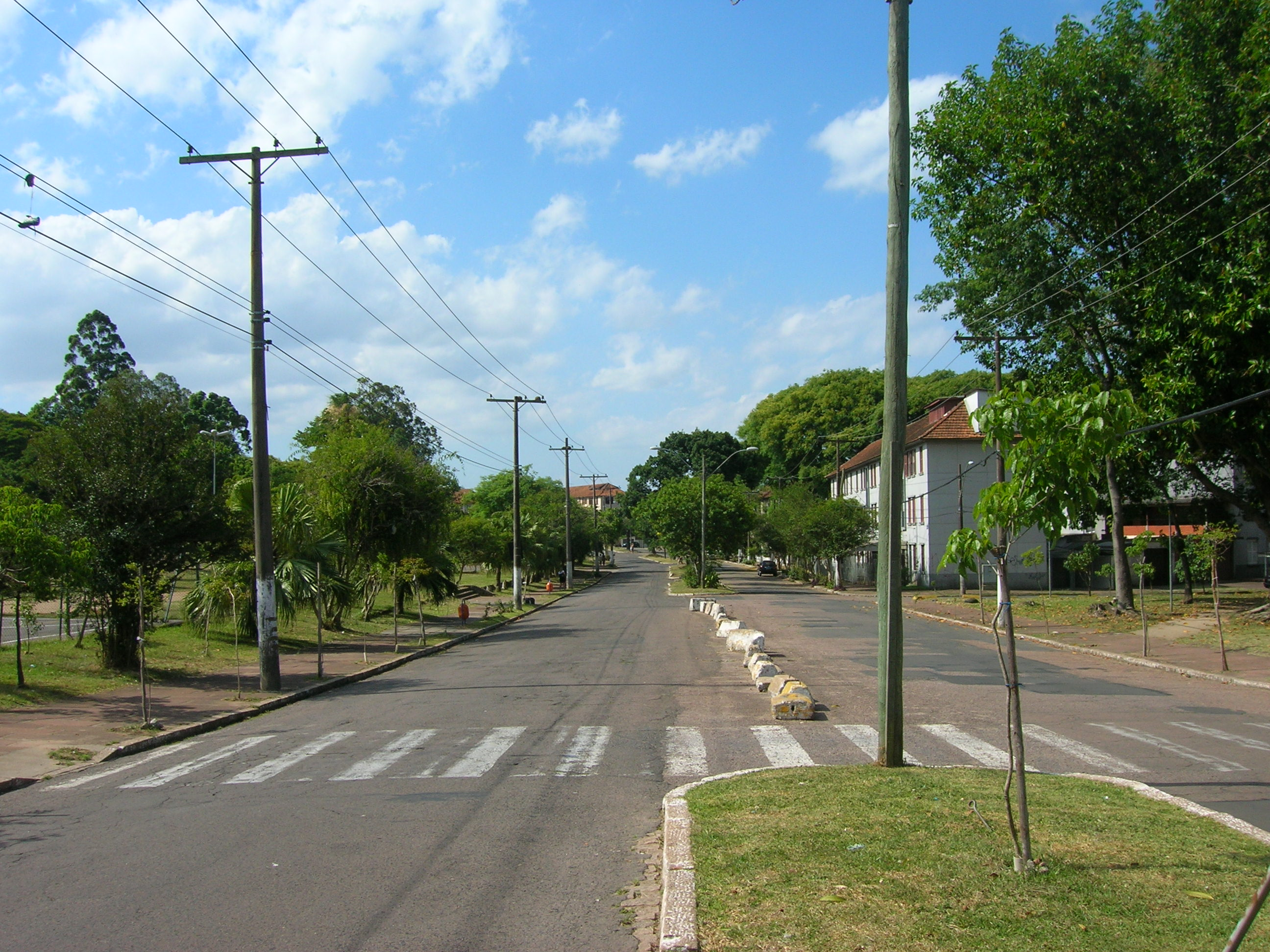 Avenida dos Industriários (literally "Industrial Workers's Avenue" in English), a avenue in Porto Alegre City, Brazil.